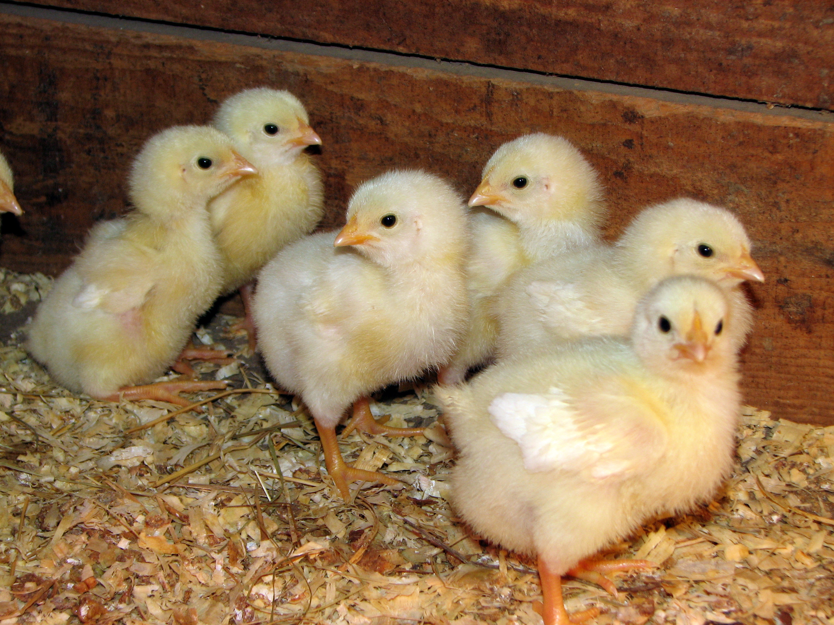 Five day old Cornish-Rock (Cornish Cross) chicks in a brooder.